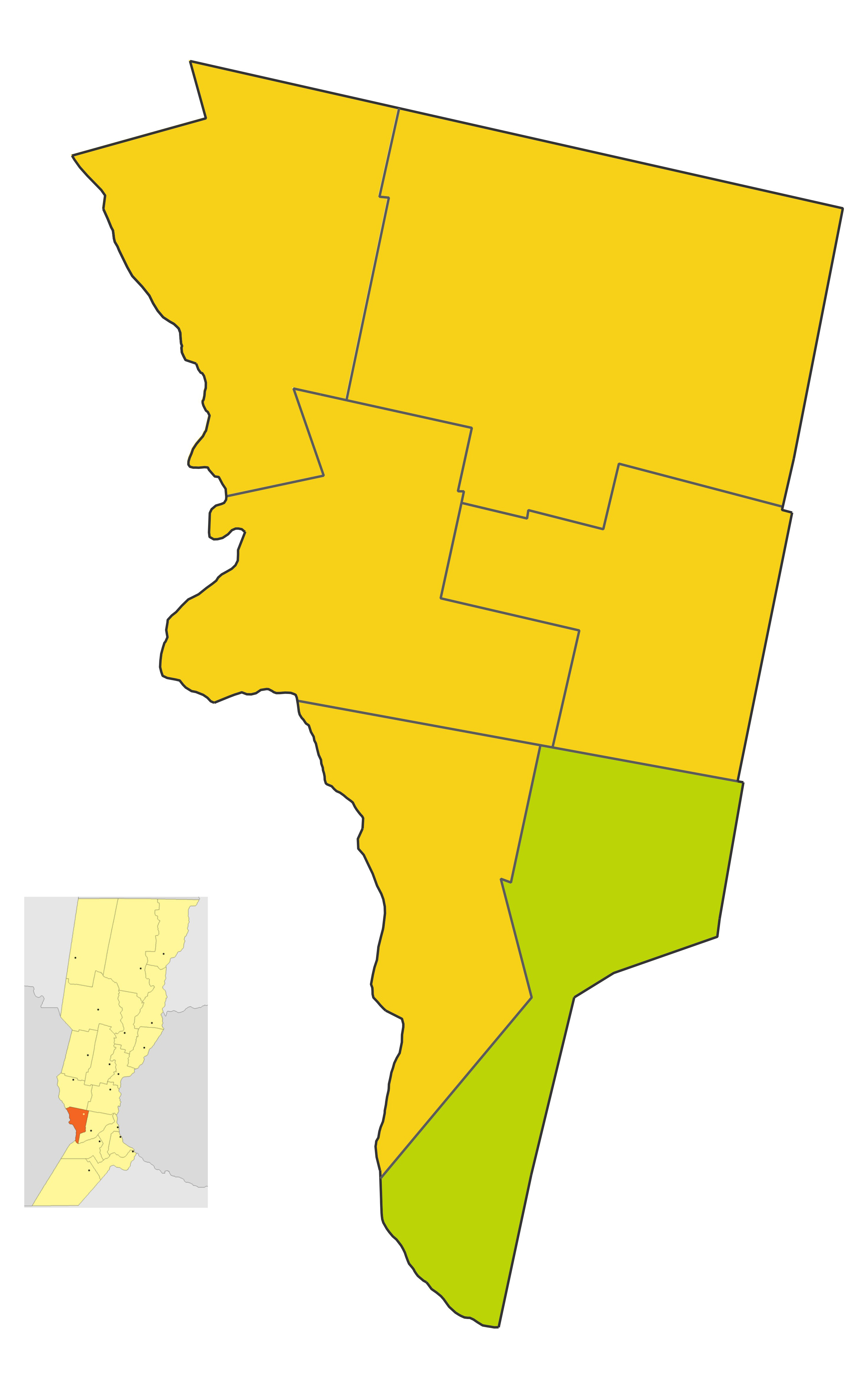 Map of the municipio de Armstrong in Belgrano department, Santa Fe province, Argentina